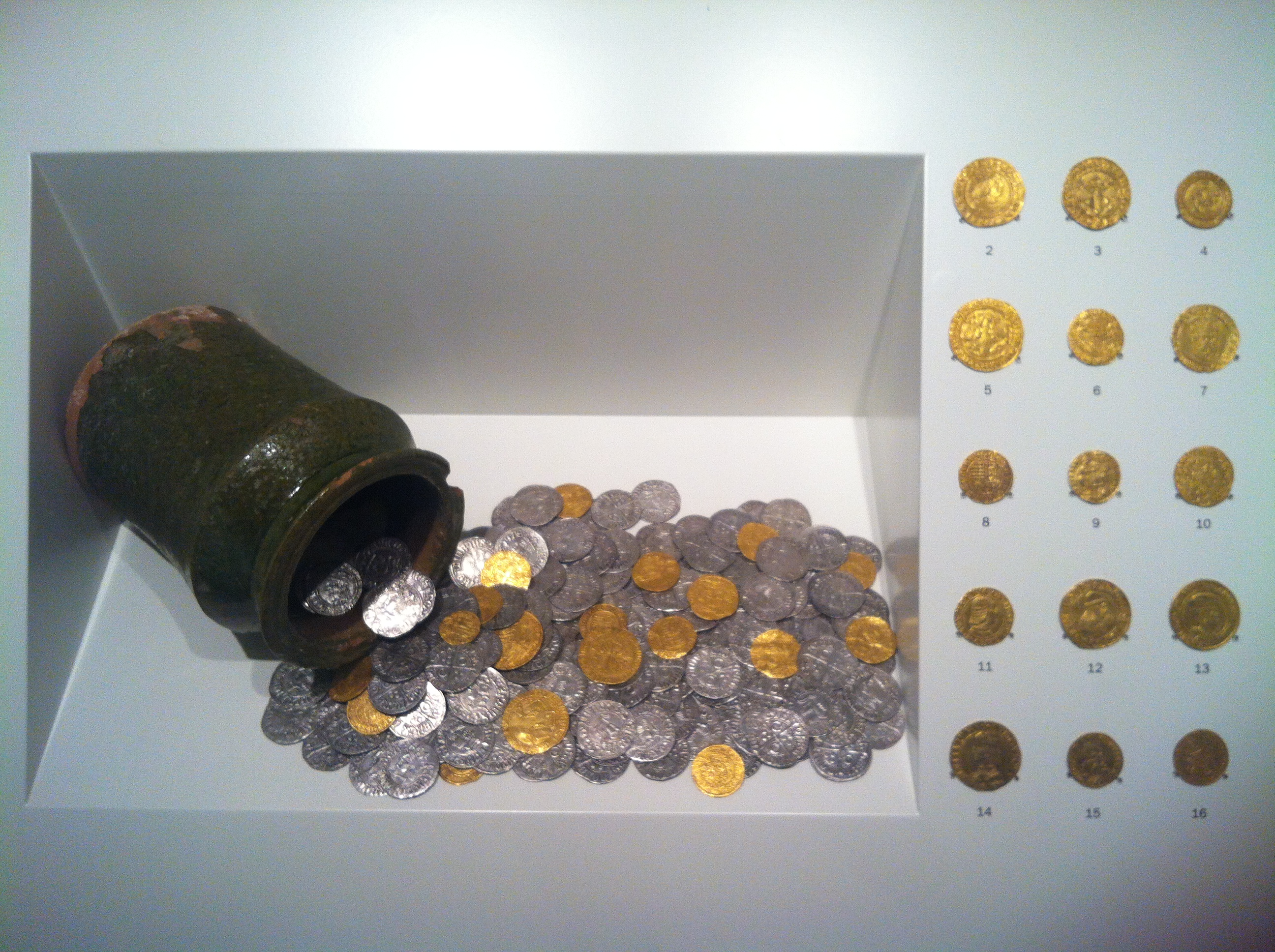 Numismatic collection conserved at MNAC in Barcelona.The collection of the Numismatic Cabinet of Catalonia, open to consultation by researchers, is formed by over 135,000 pieces. The principal numismatic series are represented here, with coins dating from the 6th century BC to the present day, as well as medals, valuable paper, tokens, monetary weights, scales, dies, decorations and insignia. Of all this wealth of material, the most important and emblematic series are without doubt the Catalan ones. They include extremely rare pieces, such as the first silver coins ever struck in the Iberian Peninsula by the Greeks of Emporion, the issues of the Catalan counties, those of the 17th-century Reapers’ War, those of the Napoleonic invasion and the bank notes issued by local councils in Catalonia during the Civil War of 1936-1939